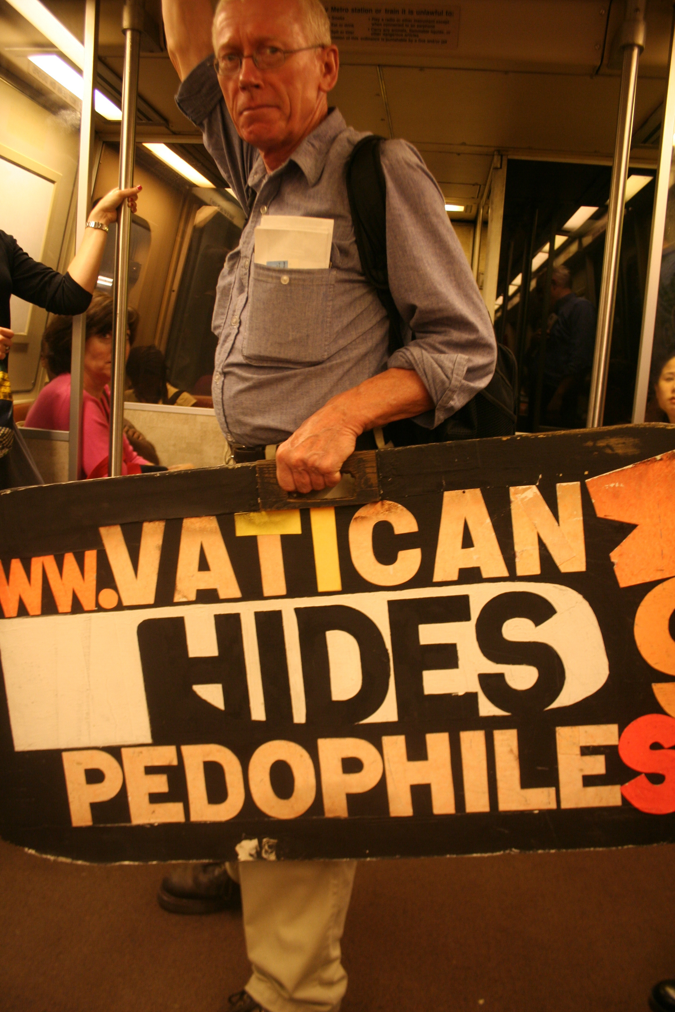 John Wojnowski . . Having boarded the WMATA Rail Red Line at Dupont Circle when this passenger boarded the subway at Farragut North Station, remembering him from his protests across the street from the Vice President's House and in front the Hyatt Regency at Capitol Hill during the Catholic Bishops Conference in Washington DC in November of each year I inquired if I may photograph him before my transferring at the Gallery Place Station . Washington DC . Thursday evening, 12 July 2007 . . Elvert Xavier Barnes Photography